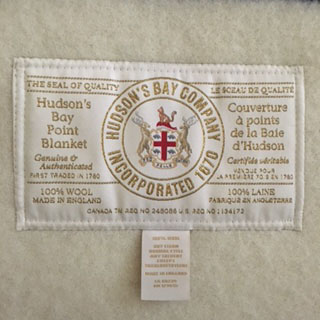 This is a logo owned by Hudson's Bay Company (HBC) to illustrate the Hudson's Bay point blanket article. It is a historical logo. Its historical usage is as follows: Current label for HBC point blanket.